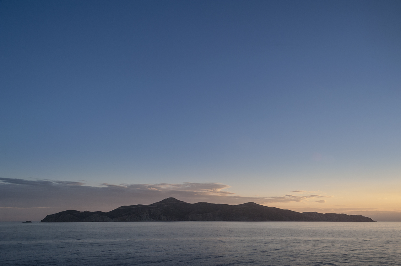 Island of Agios Gewrgios Layrewtikhs